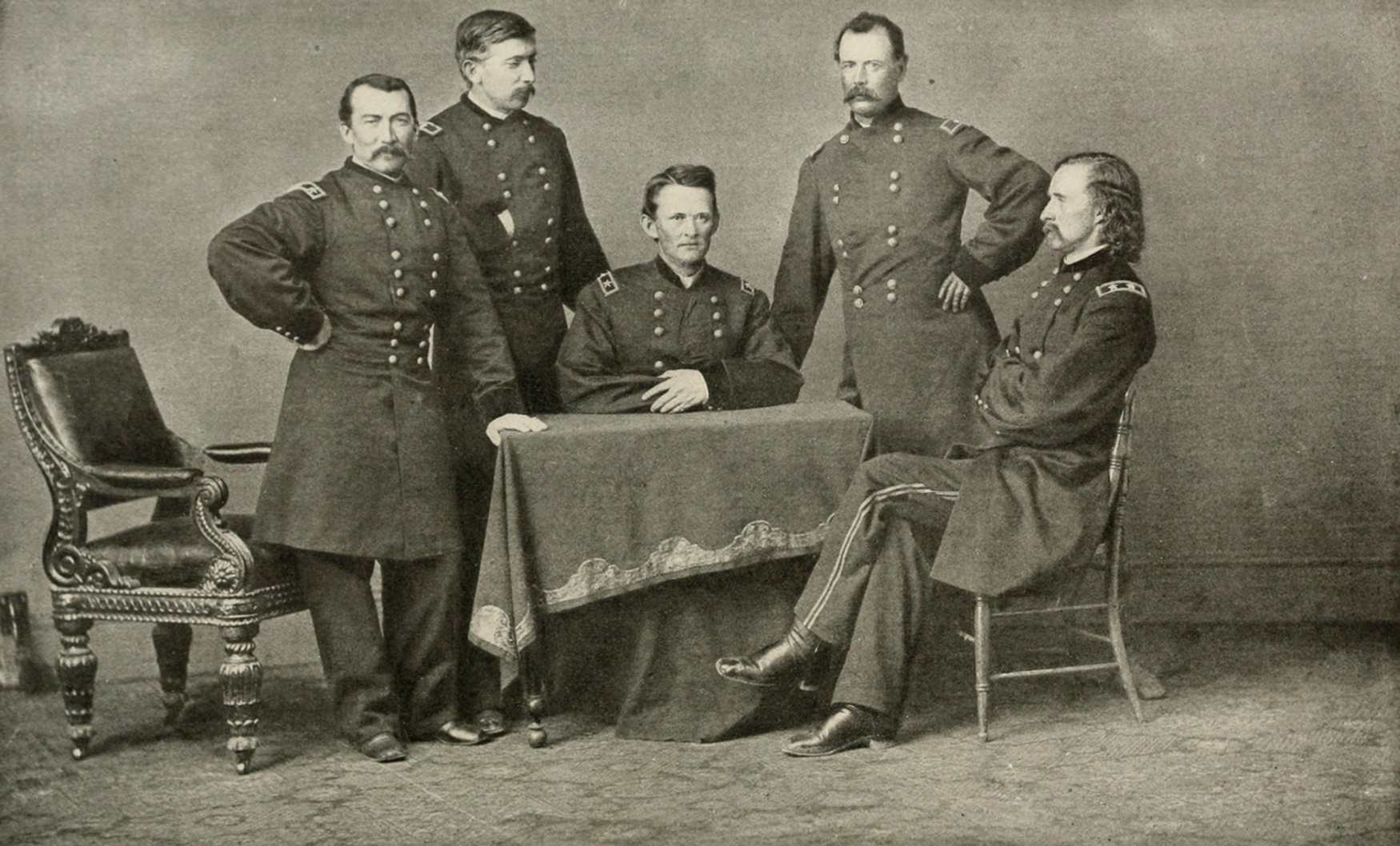 Five Union Cavalry Generals: (from left to right) Philip Sheridan, James W. Forsyth, Wesley Merritt (seated), Thomas C. Devin and George A. Custer (seated). This is a complement photo of File:FiveUnionCavalryGenerals2.jpg